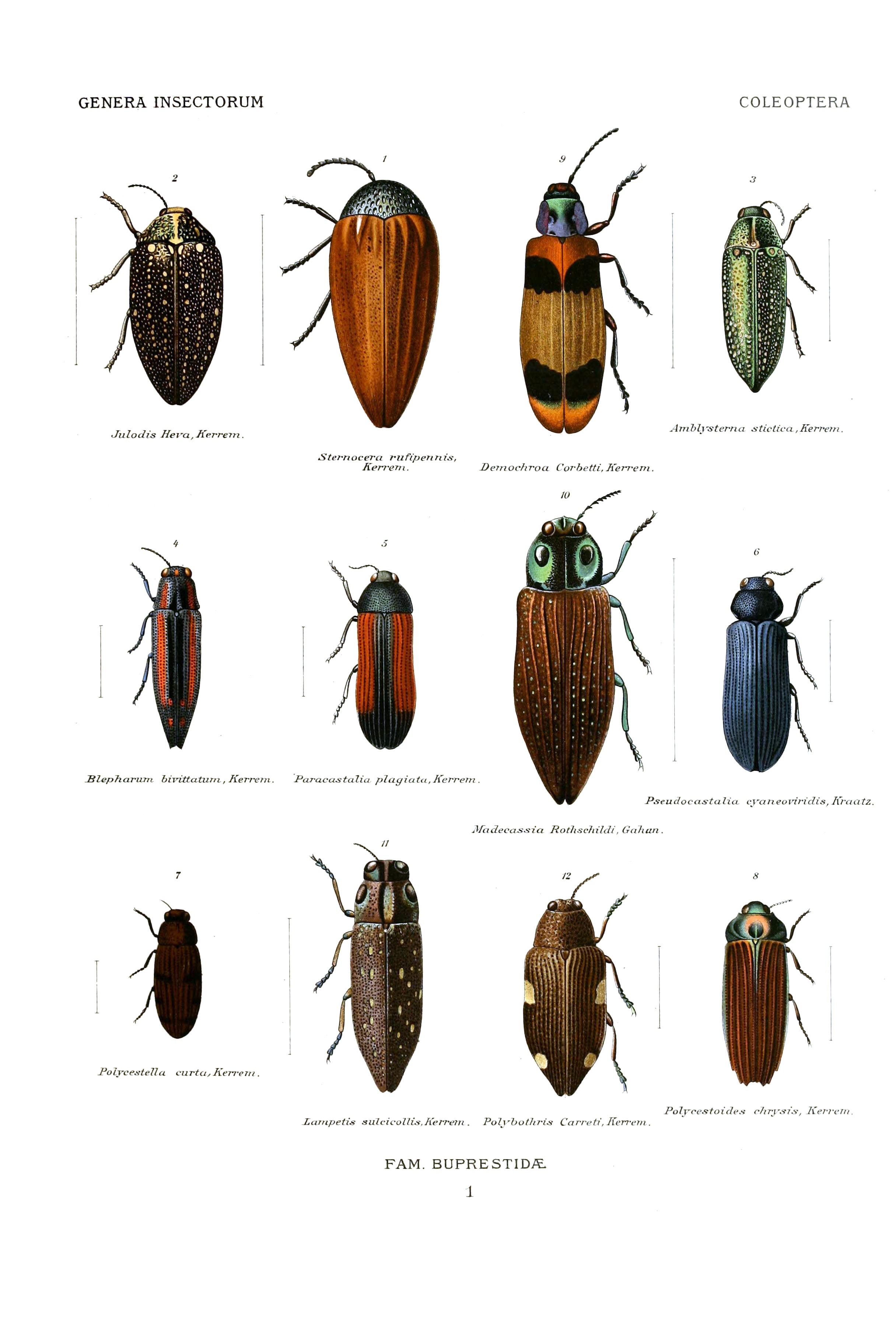 Sternocera rufipennis Kerrem. = Sternocera orissa variabilis Kerremans, 1886 Julodis Heva Kerrem. = Julodis egho Gory, 1840 Amblysterna stictia Kerrem. = Amblysterna johnstoni Waterhouse, 1885 Blepharum bivittatum Kerrem. = Blepharum bivittatum Kerremans, 1891 Paracastalia plagiata Kerrem. = Paracastalia plagiata (Kerremans, 1899) Pseudocastalia cyaneoviridis Kraatz. = Pseudocastalia bennigseni Kraatz, 1896 Polycestella curta Kerrem. = Polycestella curta (Kerremans, 1892) Polycestoides chrysis Kerrem. = Polycestoides chrysis (Kerremans, 1902) Demochroa Corbetti Kerrem. = Chrysochroa corbetti Kerremans, 1893/Demochroa corbetti (Kerremans, 1893) Madecassia Rothschildi Gahan. = Madecassia rothschildi (Gahan, 1893) Lampetis sulcicollis Kerrem. = Polybothris sulcicollis (Kerremans, 1903) Polybothris Carreti Kerrem. = Polybothris carreti (Kerremans, 1903)